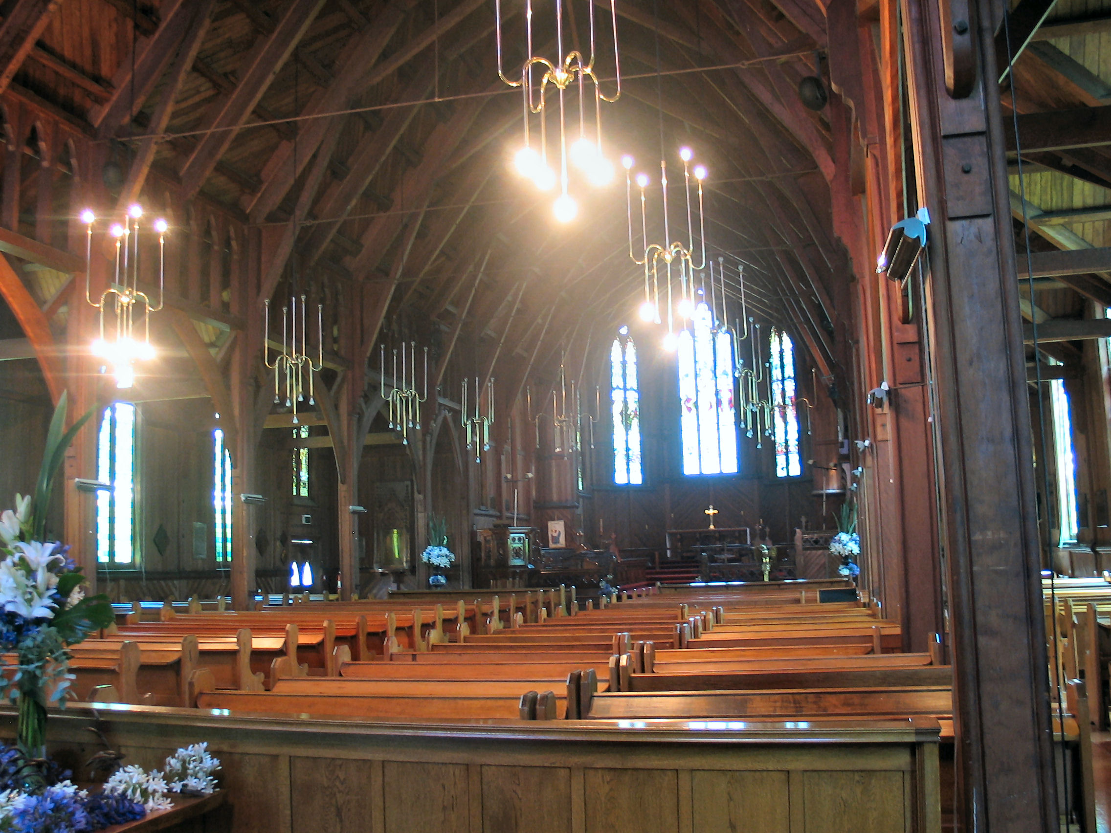 St Mary's Church, Parnell, New Zealand. Taken 17 January 2006.